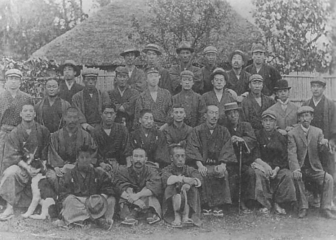 social intercourse group in Japan,天狗倶楽部 （Tengu-club）